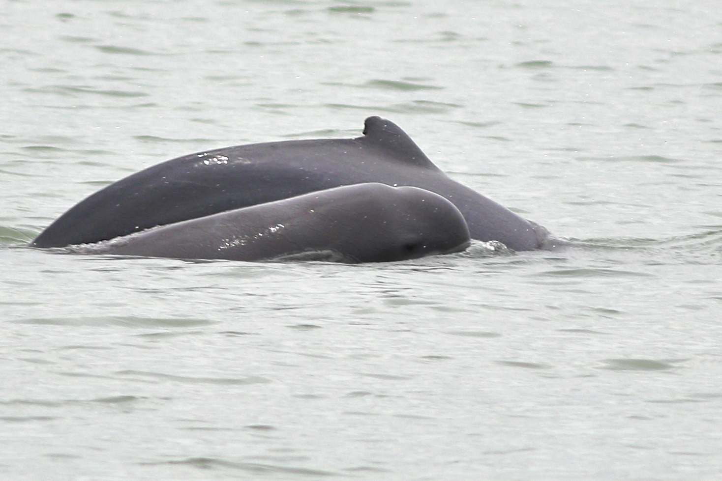 Irrawaddy Dolphin Sundarban West Bengal August 2019.